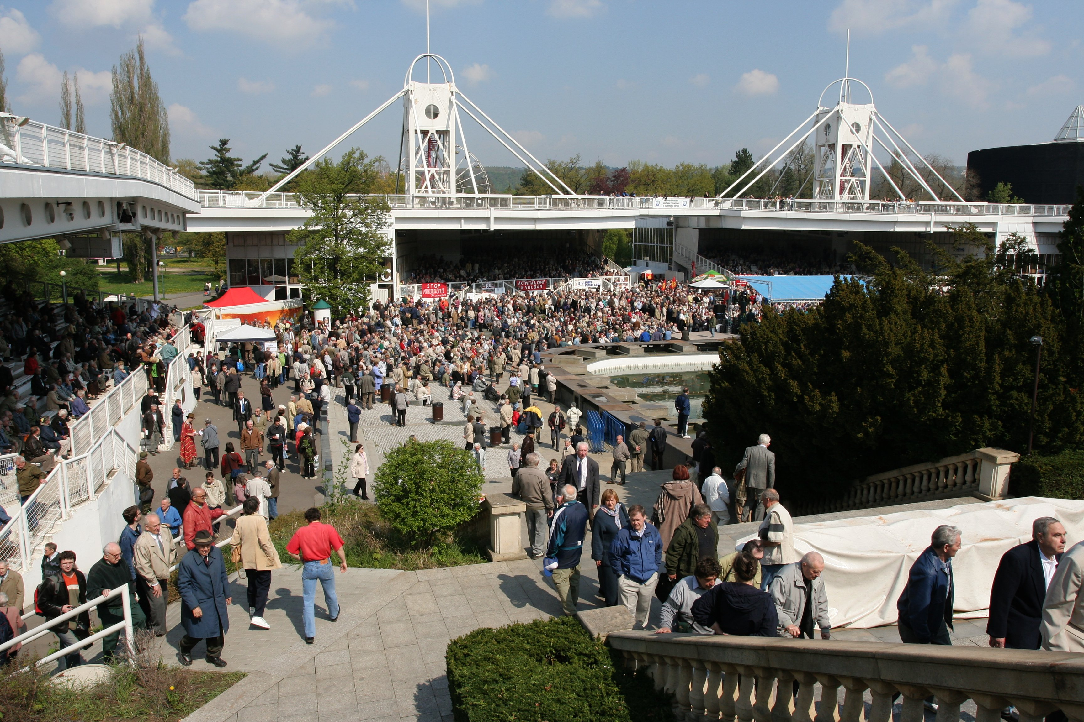 Communist meeting in Prague, May 1st, 2006